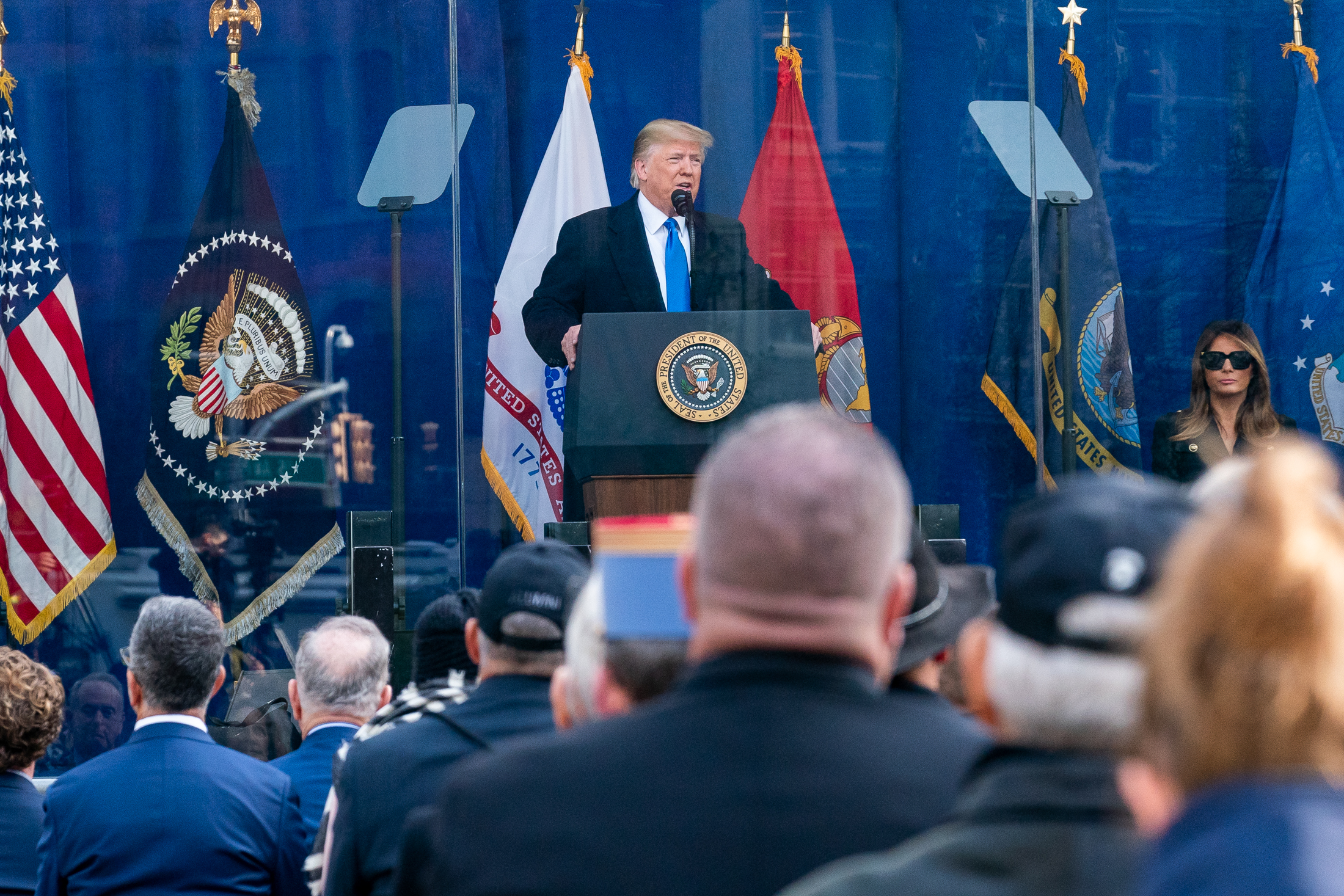 President Donald J. Trump, joined by First Lady Melania Trump, delivers remarks during a wreath laying ceremony in observance of Veteran's Day Monday, Nov. 11, 2019, at Madison Square Park in New York City. (Official White House Photo by Andrea Hanks)